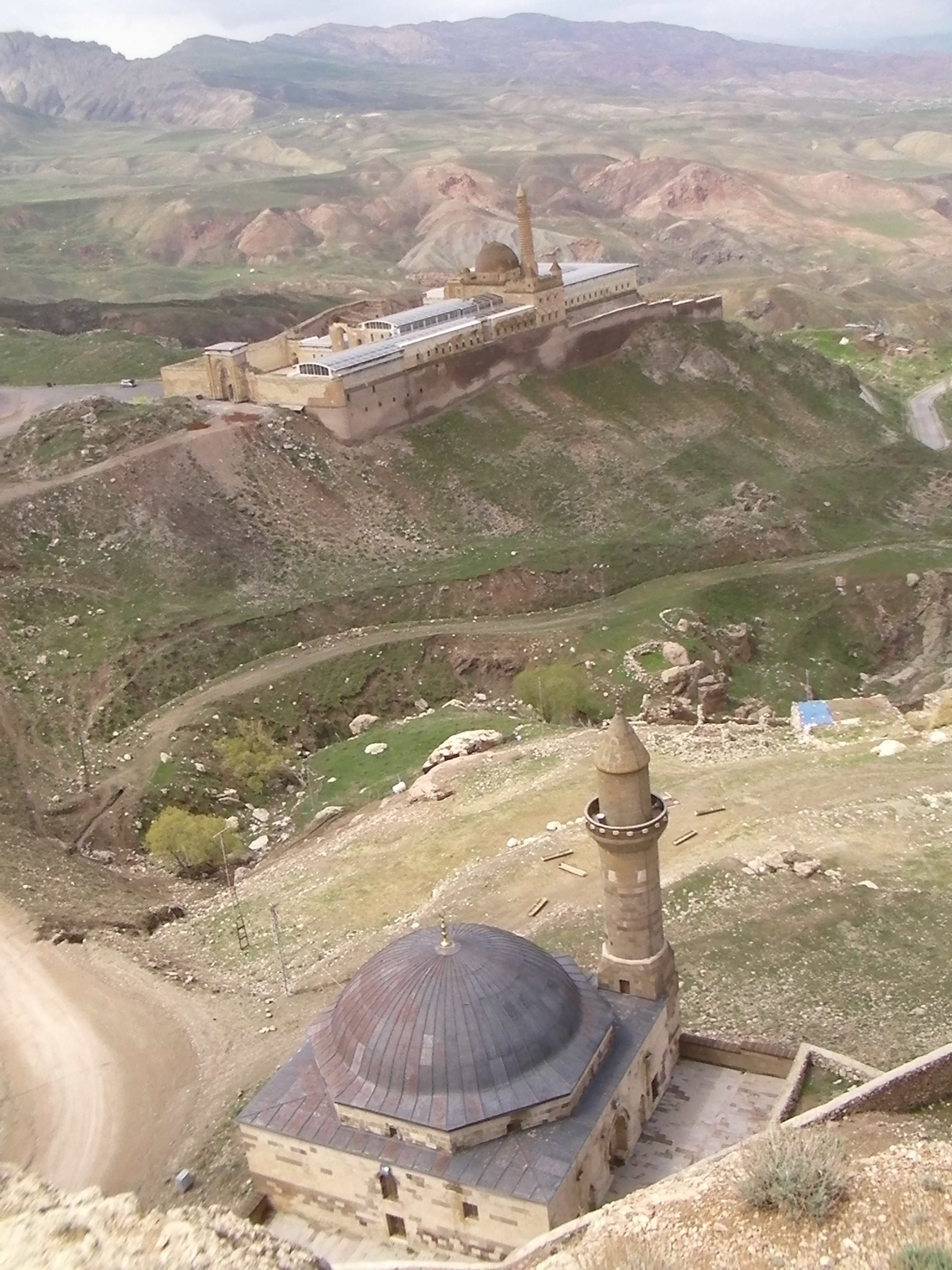 View of a mosque (foreground) and Ishak Pasha Palace (İshak Paşa Sarayı) in the background.